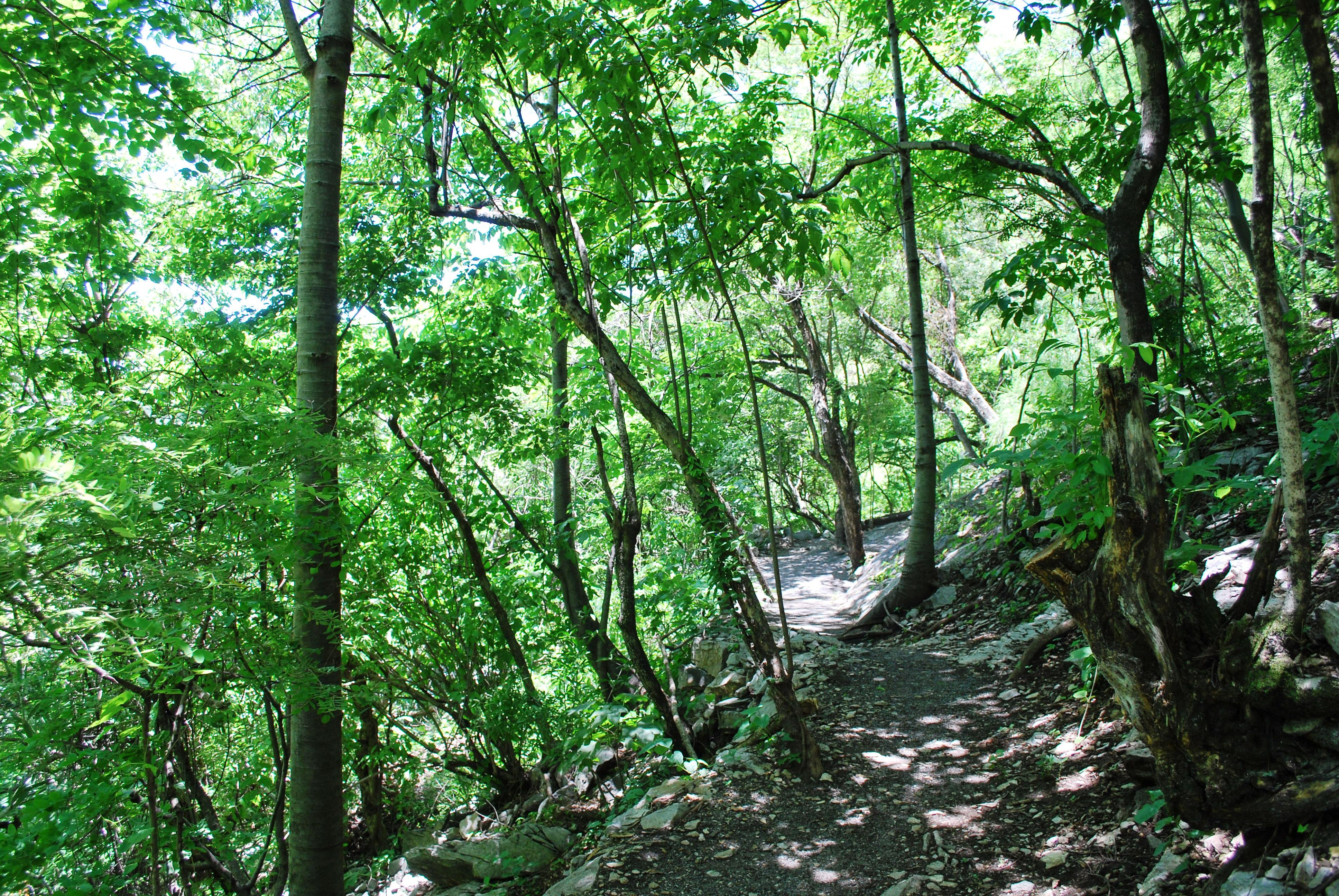 At Limontitla Botanical Garden in the Grutas de Cacahuamilpa National Park in Guerrero state, Mexico